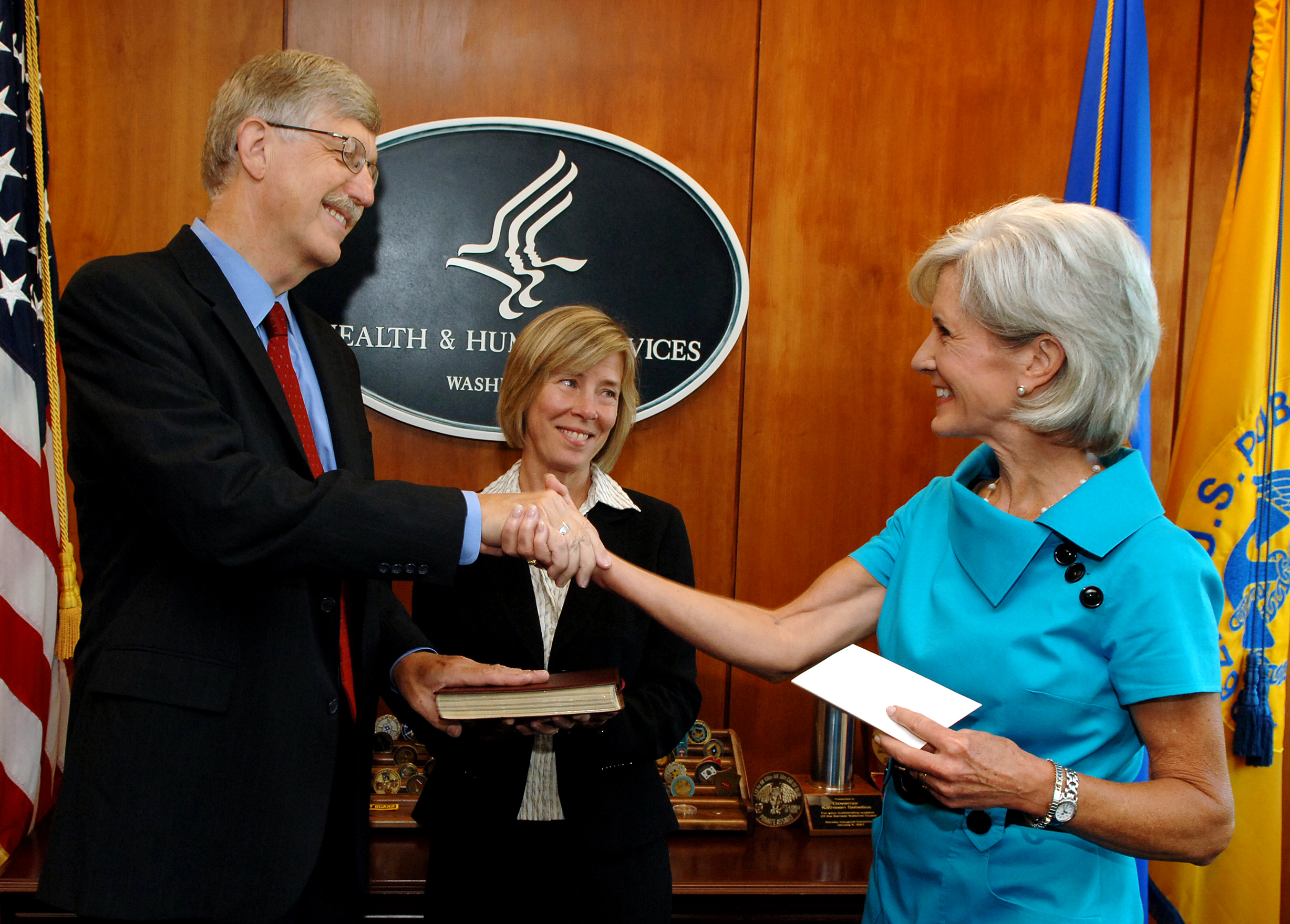 NIH Director Francis Collins with United States Health and Human Services Secretary Kathleen Sebelius, after Collins' swearing-in ceremony.